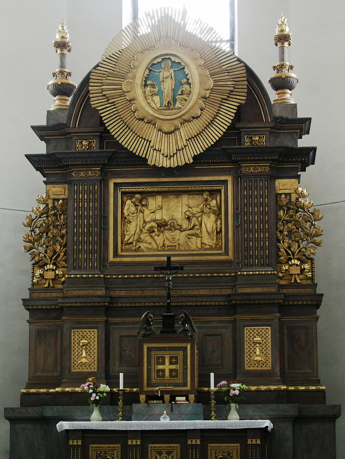 Fredrikskyrkan, Karlskrona. Altar. The picture was taken the 6th of August 2005 by Håkan Svensson (Xauxa).